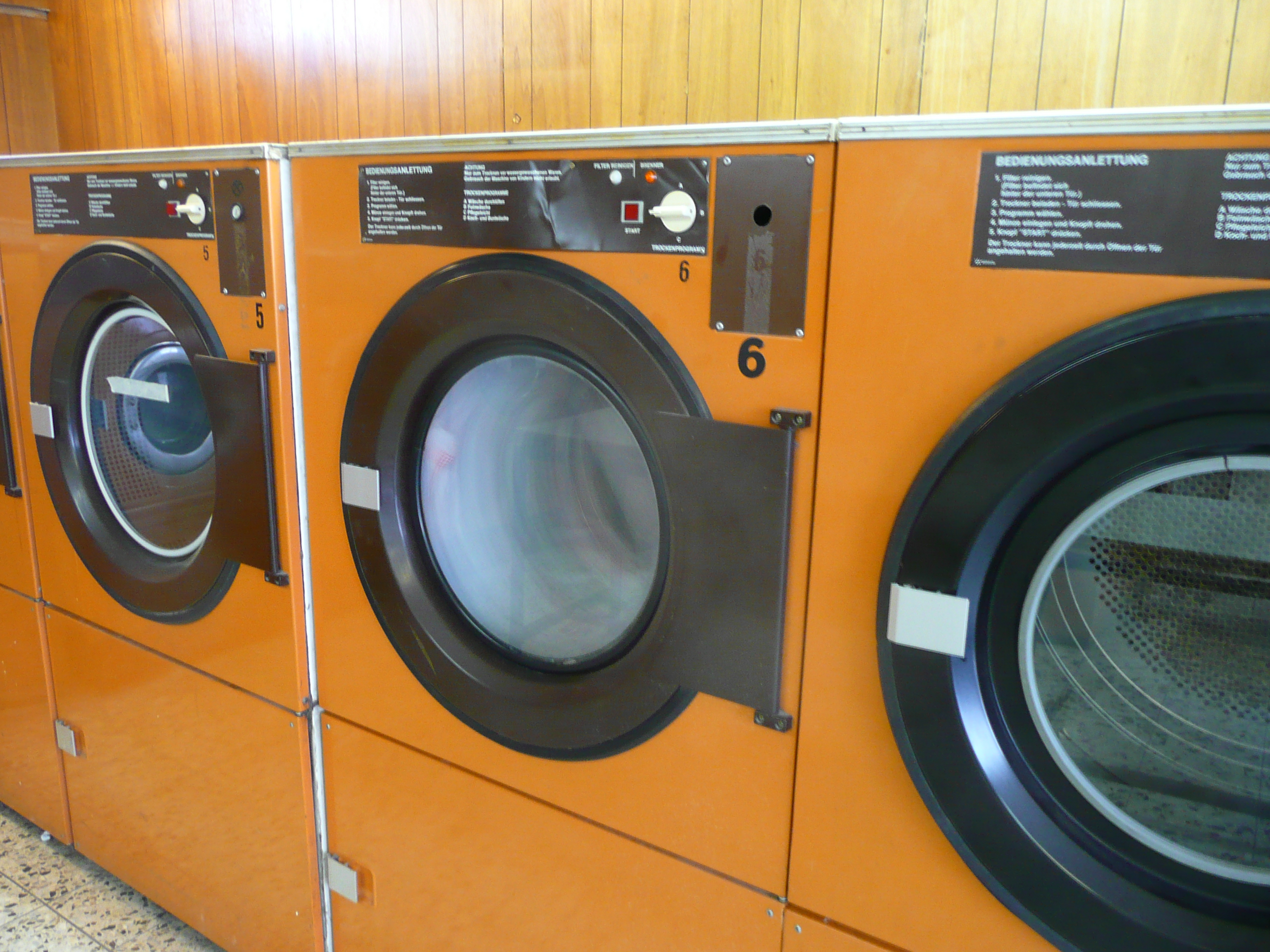 Clothes dryer at East Hotel Hamburg, Germany.P1040954